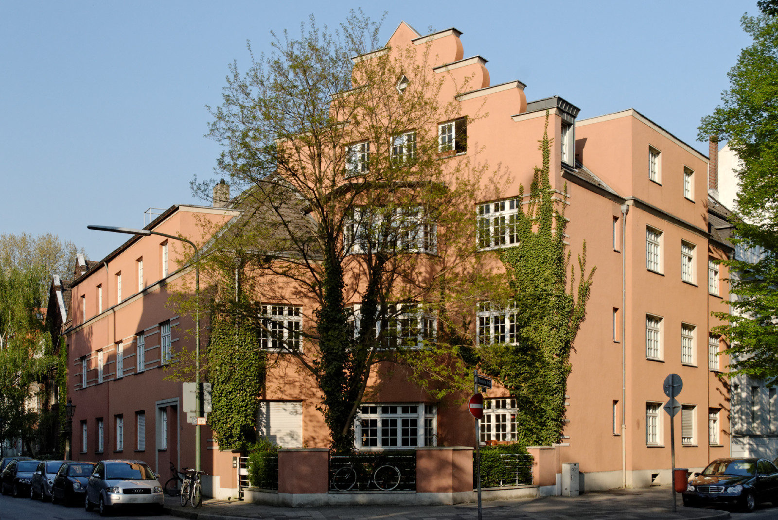 House Cimbernstraße 3 and 5 in Düsseldorf-Oberkassel, Germany